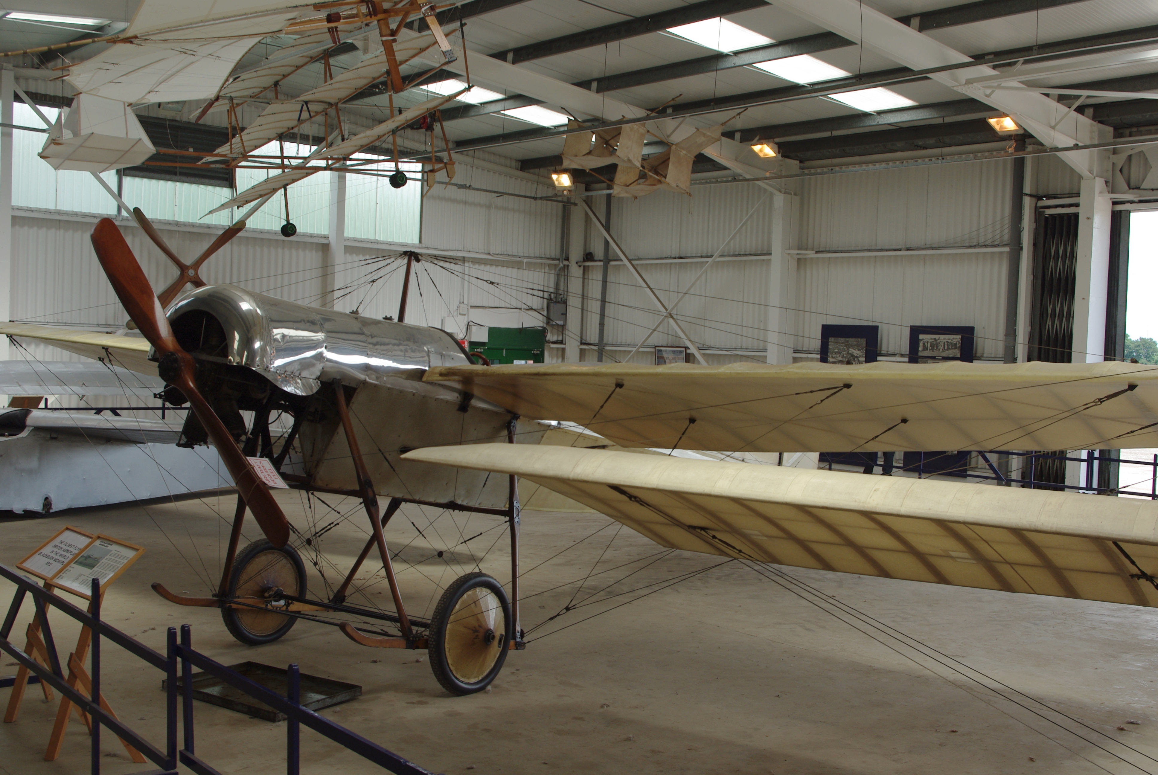 Blackburn Type D in the Shuttleworth collection. the oldest flying British aircraft. It first flew in 1912. The wing in at lower right is that of a Deperdussin.